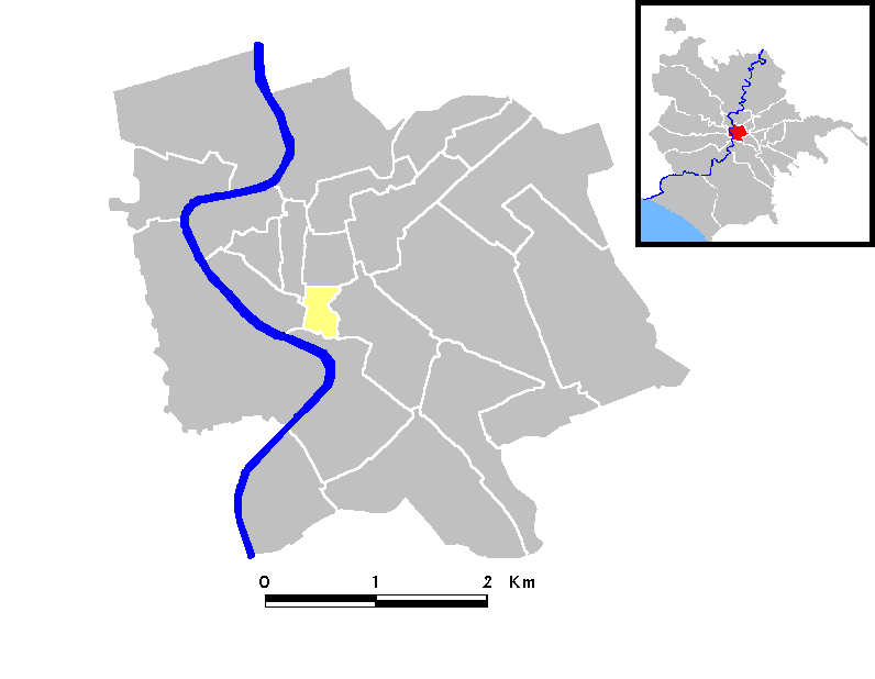 Locator maps of Rome (rioni)